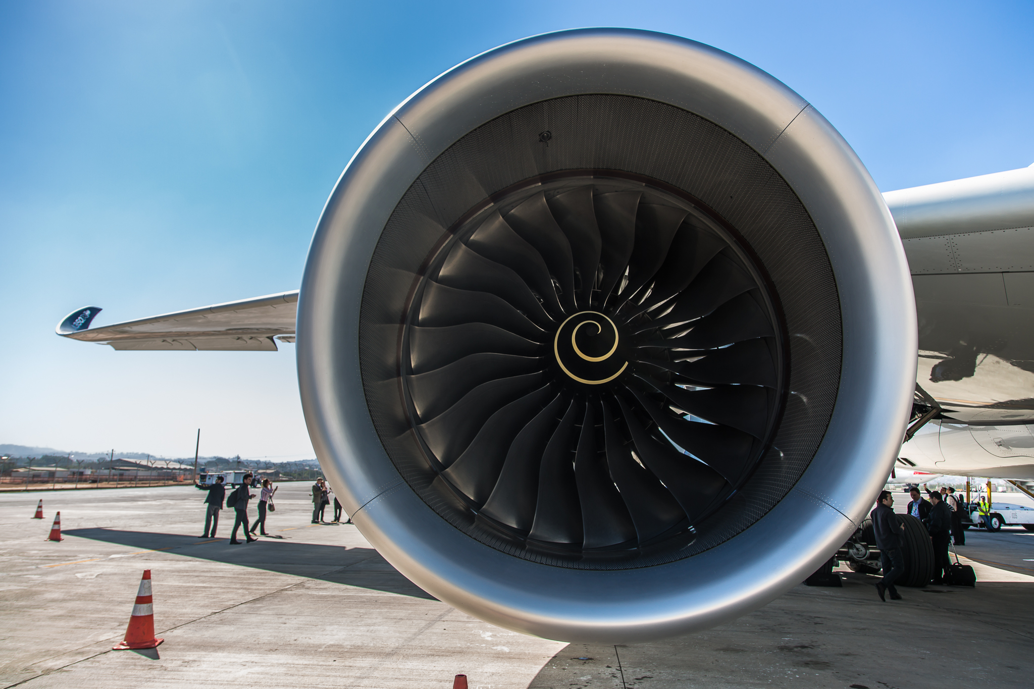 The right trent turbojet of Airbus A-350 XWB F-WWYB, at São Paulo–Guarulhos International Airport (SBGR).